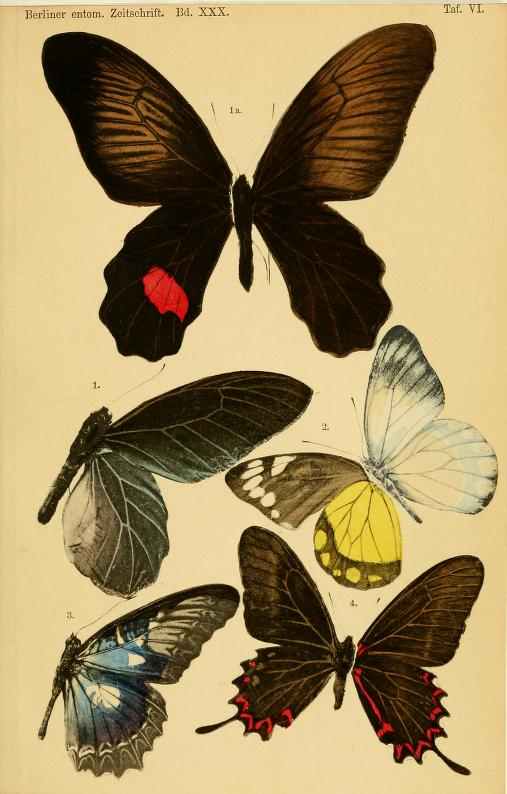 BerlinerEntZeit1886XXXPlate6 Atrophaneura kuehni (Honrath, 1886)1 female 1a male Delias kuehni Honrath, 1887 Cethosia myrina C. & R. Felder, 1867 pomponius Hopffer, 1865 synonym of Mimoides lysithous (Hübner, [1821])